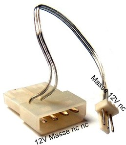 Adapter cable. It connects a small Molex connector of a fan with a large one. The control lines (speed, PWM) are discarded.